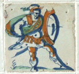 Tile illustrated with a Roman.